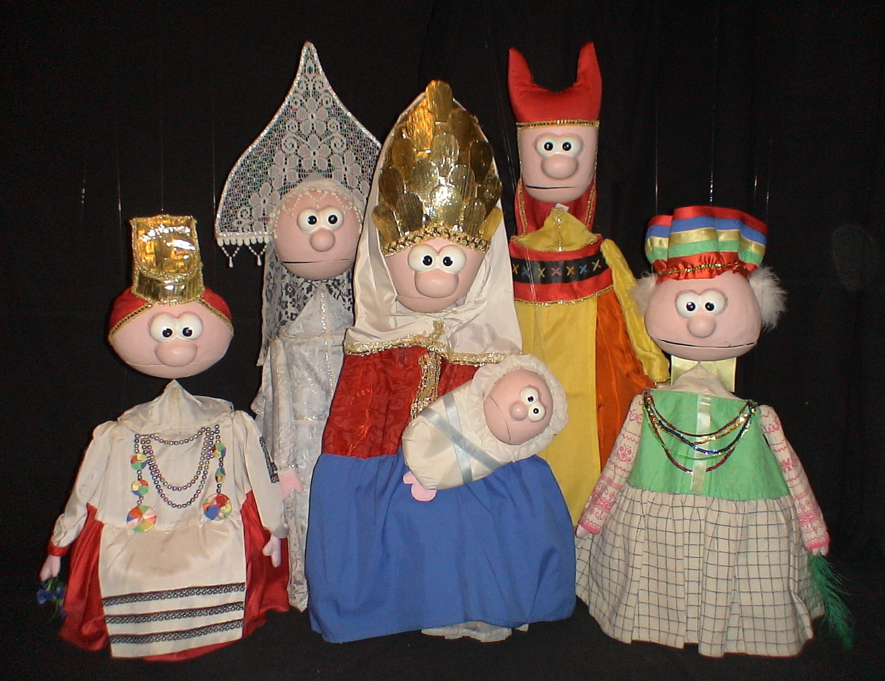 RUSSIAN SOUVENIR, marionettes, Nikolay Zykov Theatre, Russia. Nikolai Zykov - Soviet and Russian actor, producer, artist, designer, puppet-maker, master puppeteer, author of over 20 puppet performances. Nikolai Zykov has created and has made over 80 puppet vignettes with participation of marionettes, hand, rod, giant, radio-controlled and experimental puppets. Nikolai Zykov has performed in 35 countries around the world.